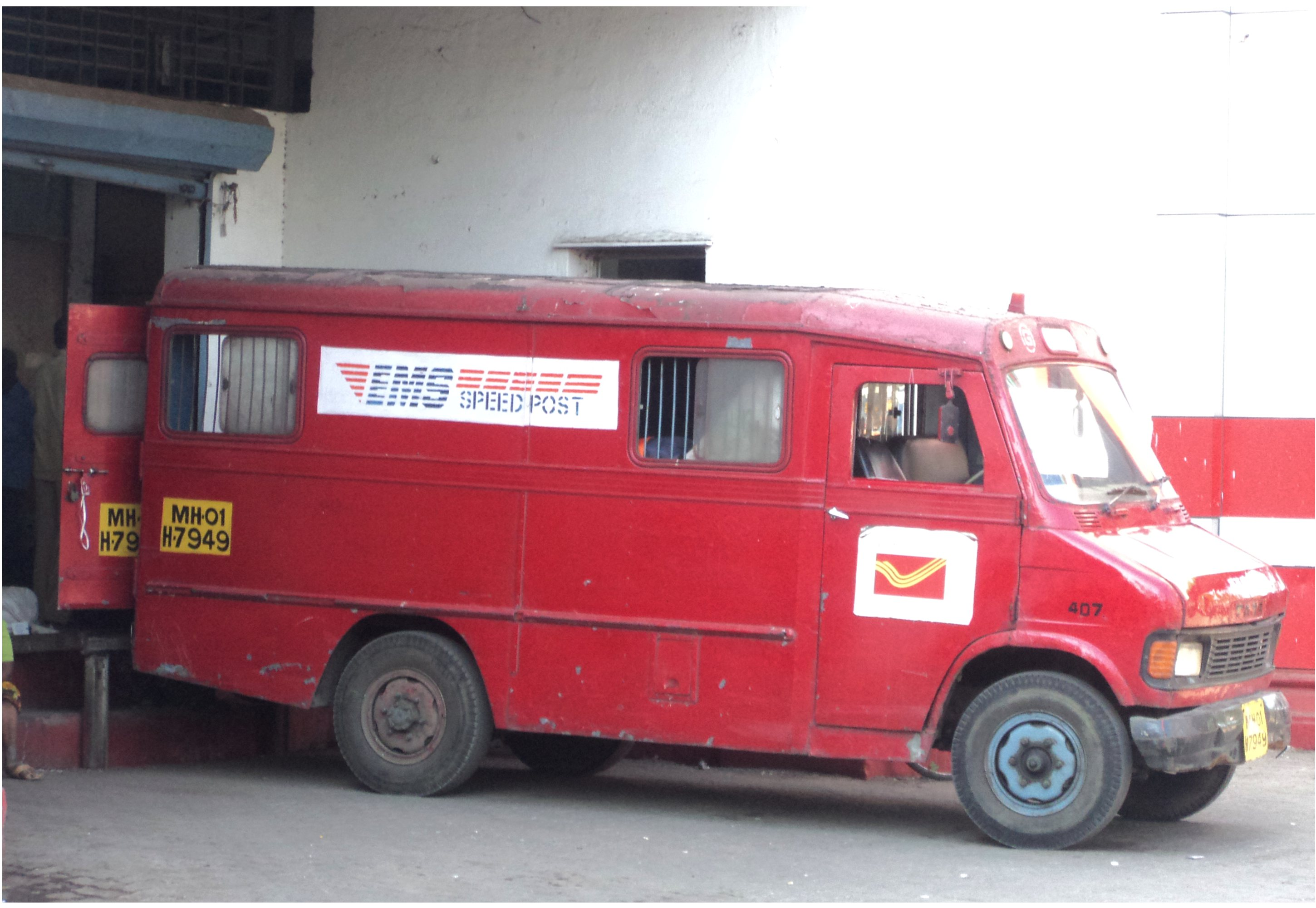 speed postal service, EMS,mumbai